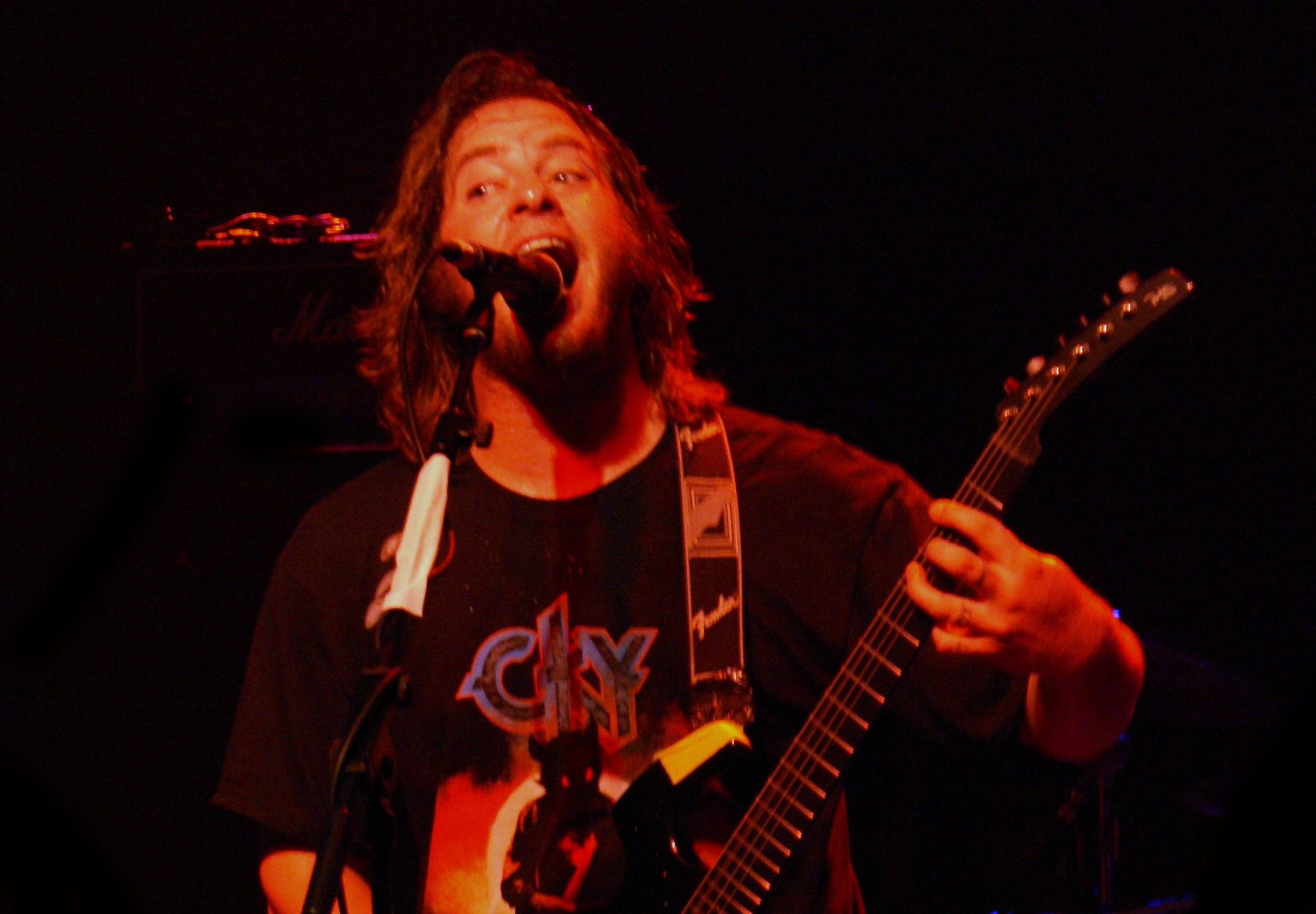 Deron Miller performing with CKY in Colchester, England on July 9, 2009.